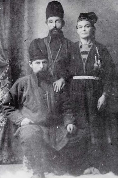 Wedding photography of sami hunter and reindeer herder John Eliassen Boere (1843-1918) of Namdalen, Norway and his second wife Brita Mortensdatter.